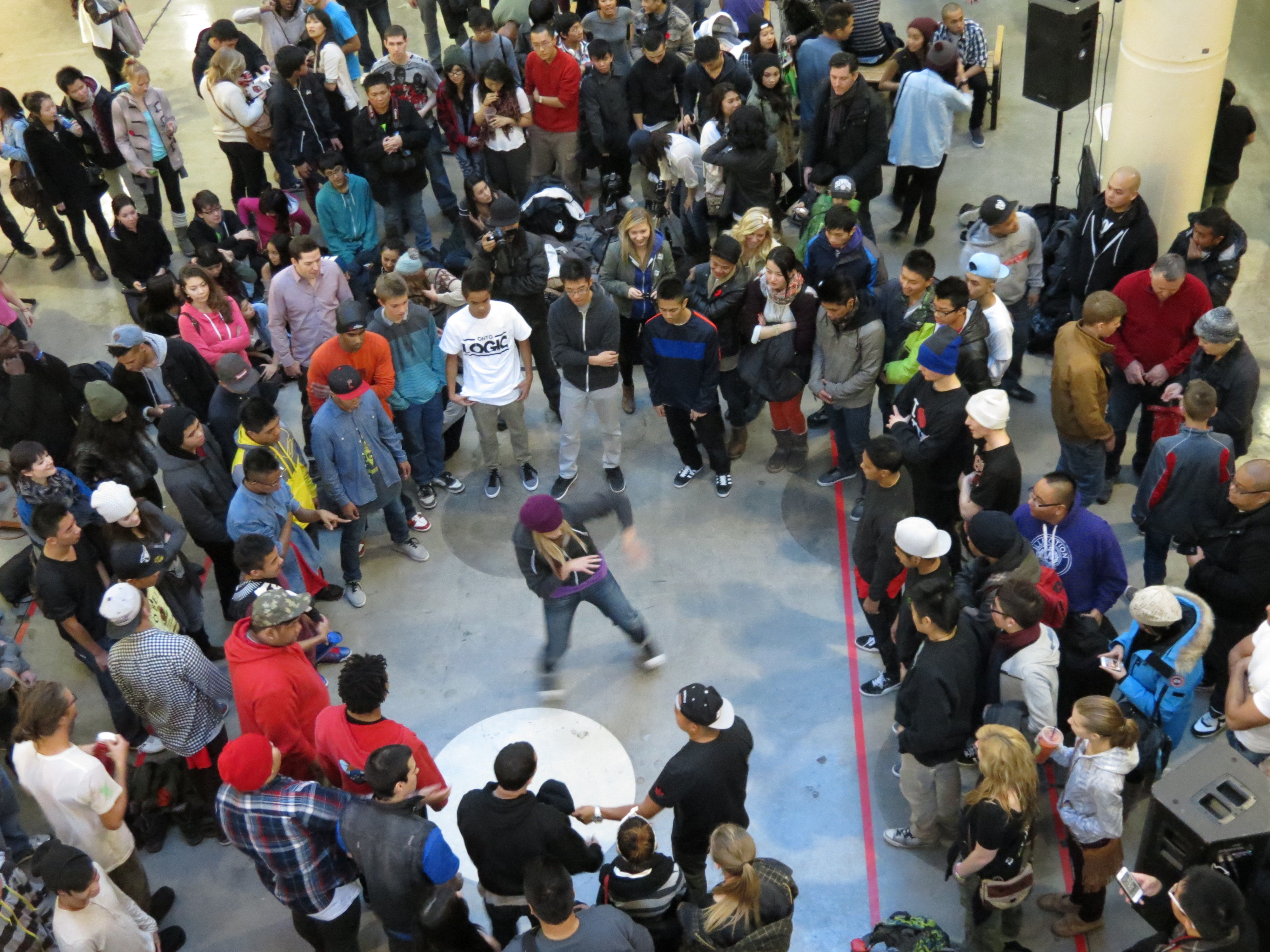 A female breakdancer at the Breakdanceoff in Calgary.